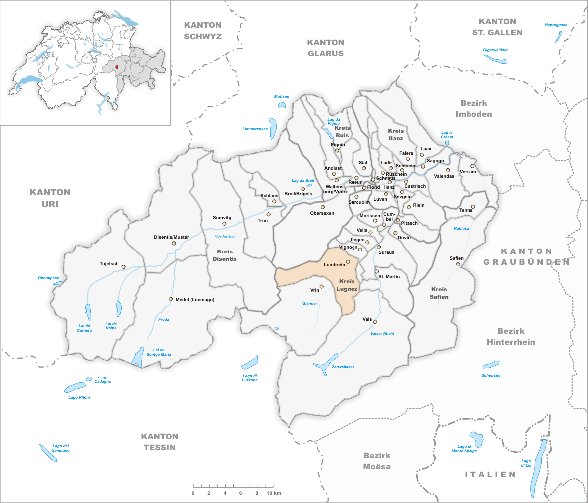 Municipality Lumbrein